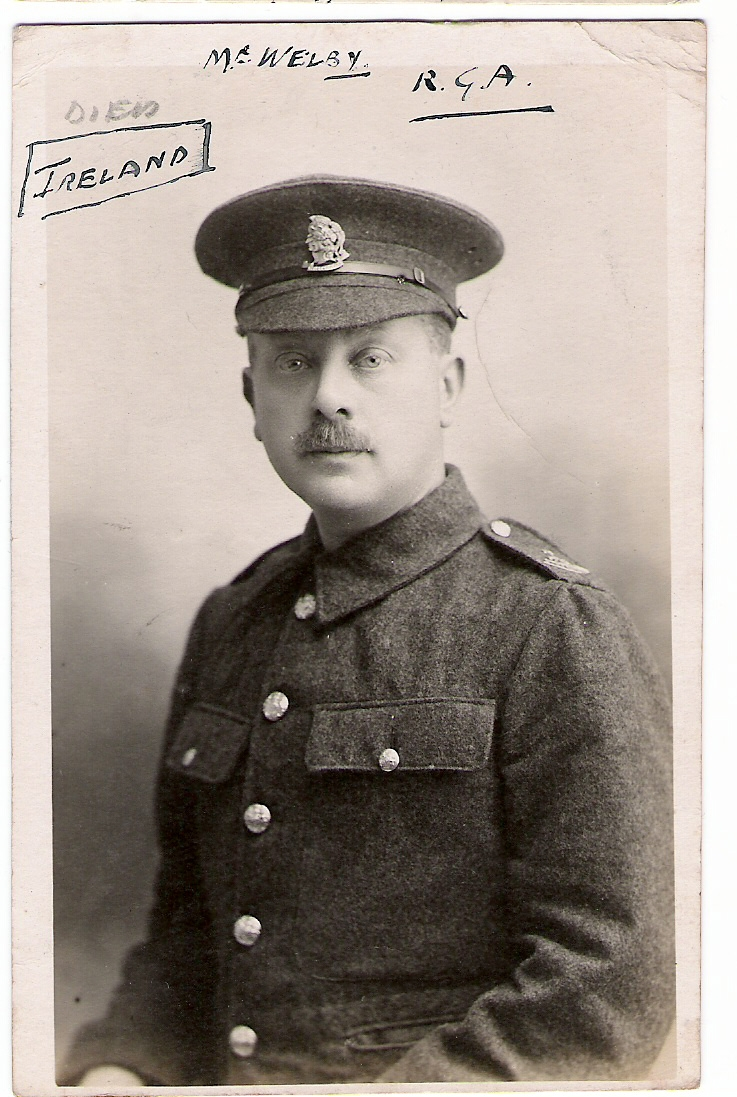 Davis Welby of the Artists Rifles and the Royal Artillery Garrison. His death is recorded on an individual memorial at Harlow Hill Cemetery, Harrogate, England.